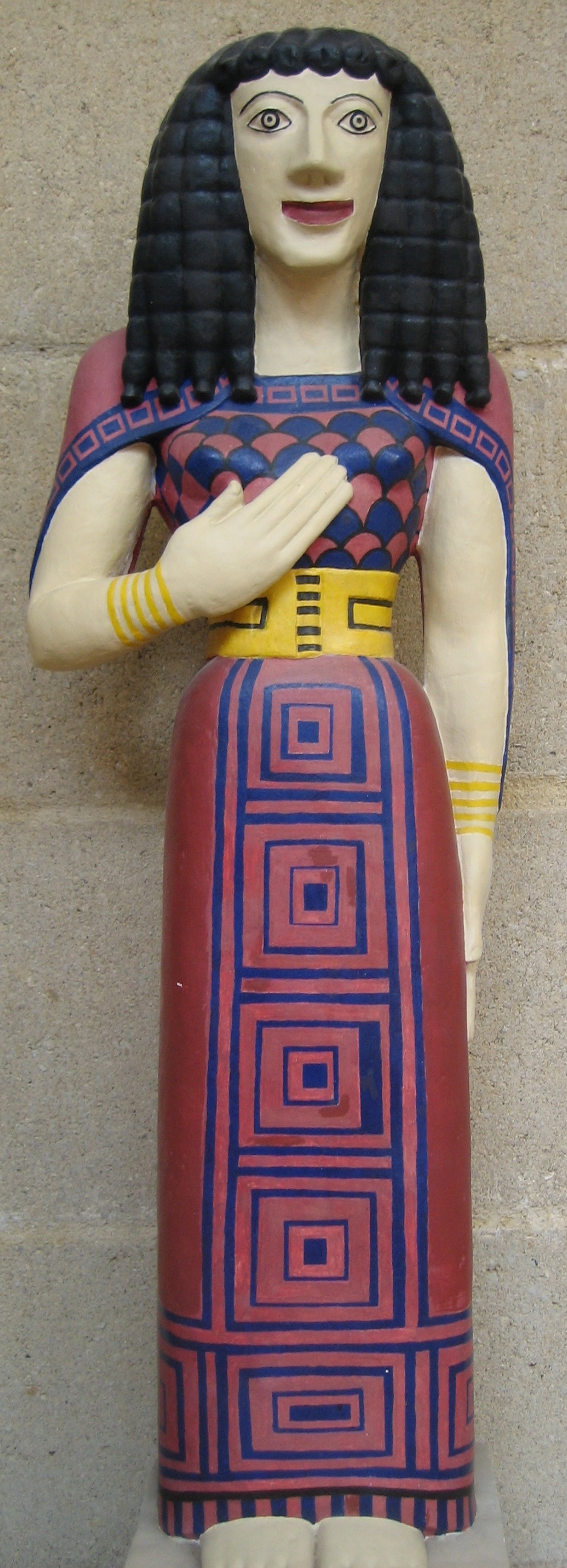 Lady of Auxerre, plaster cast at cast gallery at Classics dept. at the University of Cambridge.